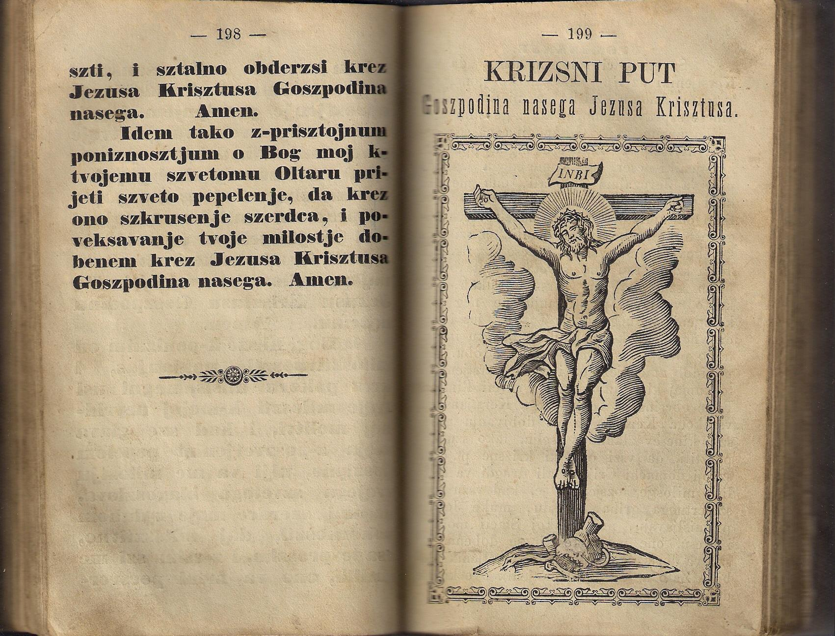 The Station of the Holy Cross in Burgenland Croatian language (gradišćanskohrvatski jezik) from the prayer-book Hizsa zlata (19th century)